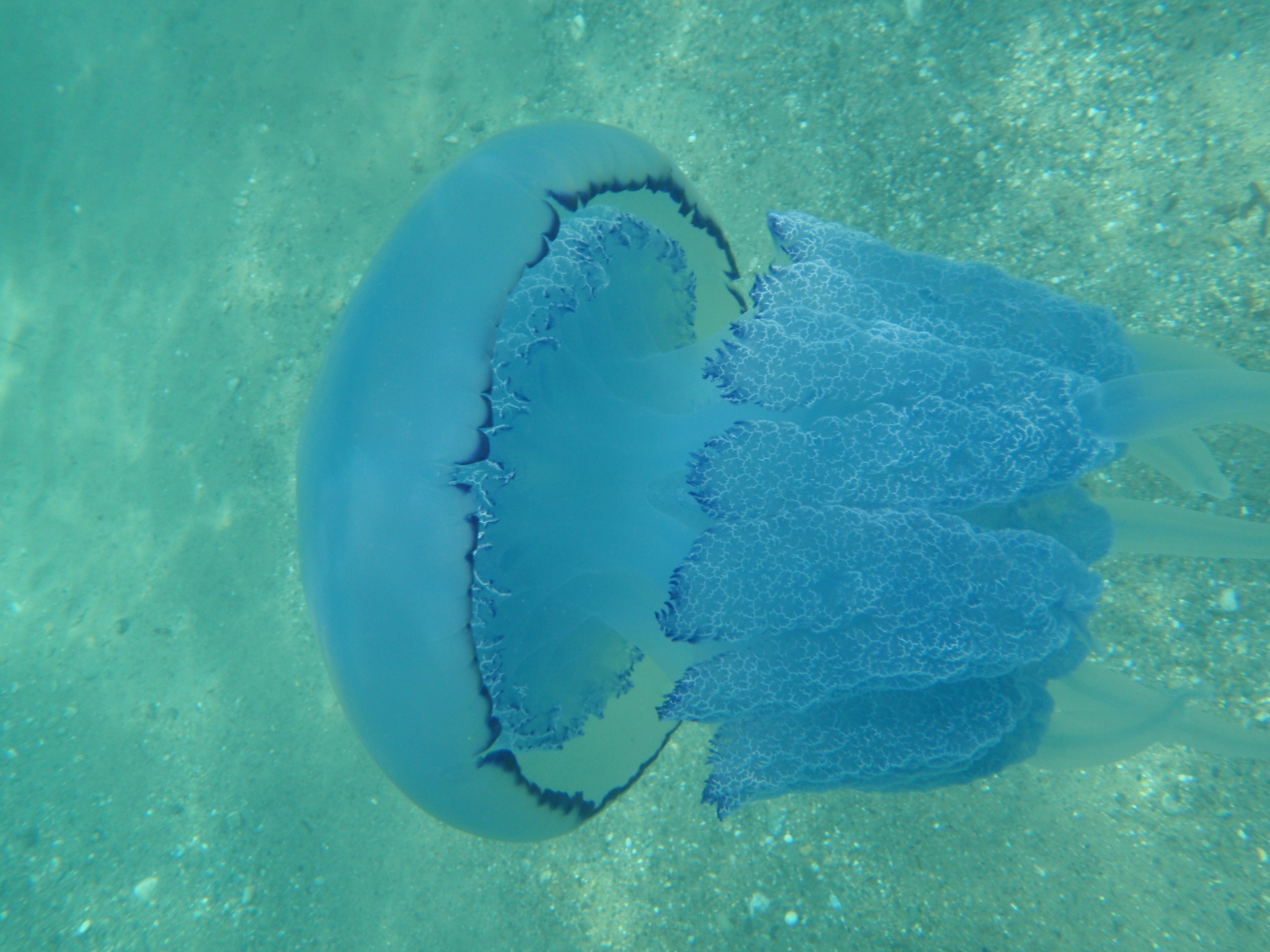 Rhizostoma pulmo - Greece